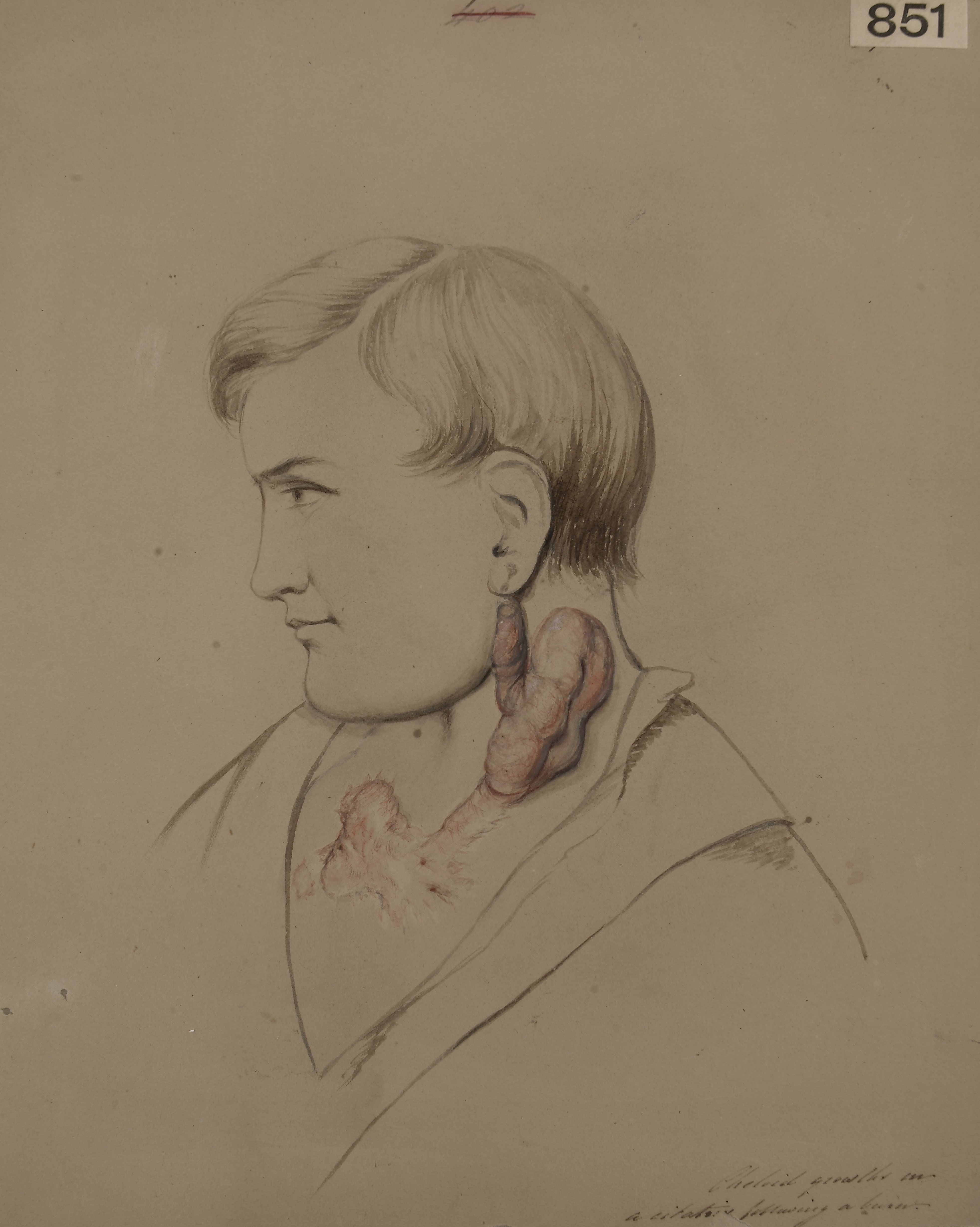 Watercolour drawing of the head and neck of a patient showing the development of keloid growths from a cicatrix following a burn. Medical Photographic Library Keywords: Godart, Thomas